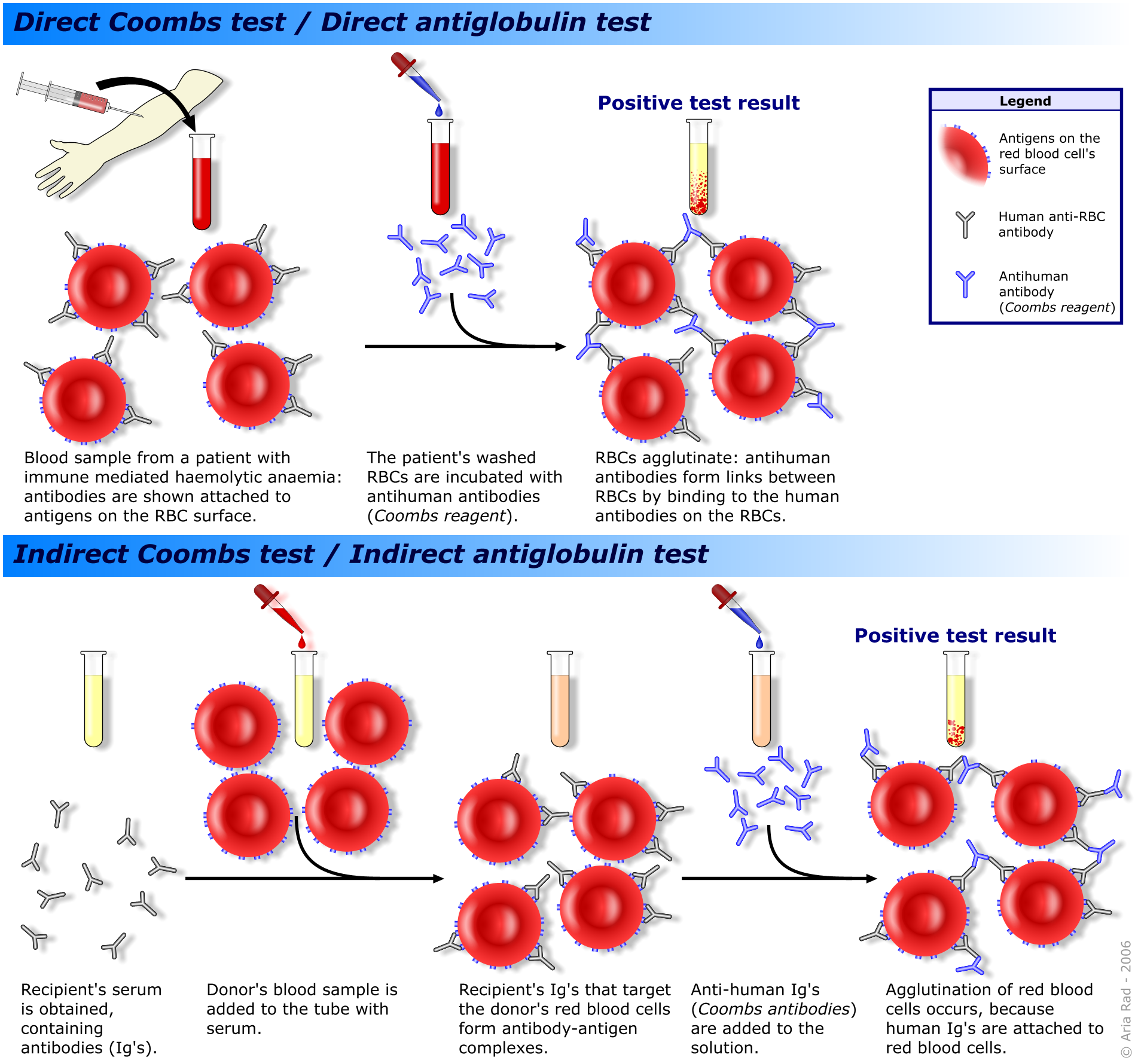 Description: schematic diagram of the Coombs (or antiglobulin) test, showing what is performed and the micro- and macroscopic changes that occur. With a - direct or indirect - negative test result (not shown), agglutination will not occur and the tube will look exactly like it was in the previous step. Author: A. Rad Date: March 16, 2006 License: GFDL-self Created using Xara X¹ (no svg export). You can contact me on my Wikipedia user page for comments. User:Snowmanradio helped me a lot during the creation of this diagram by giving feedback. Misc. info: I already had drawn the direct Coombs test for a powerpoint presentation. Only had to draw the indirect test and put it all in a schematic that makes sense to everyone else.